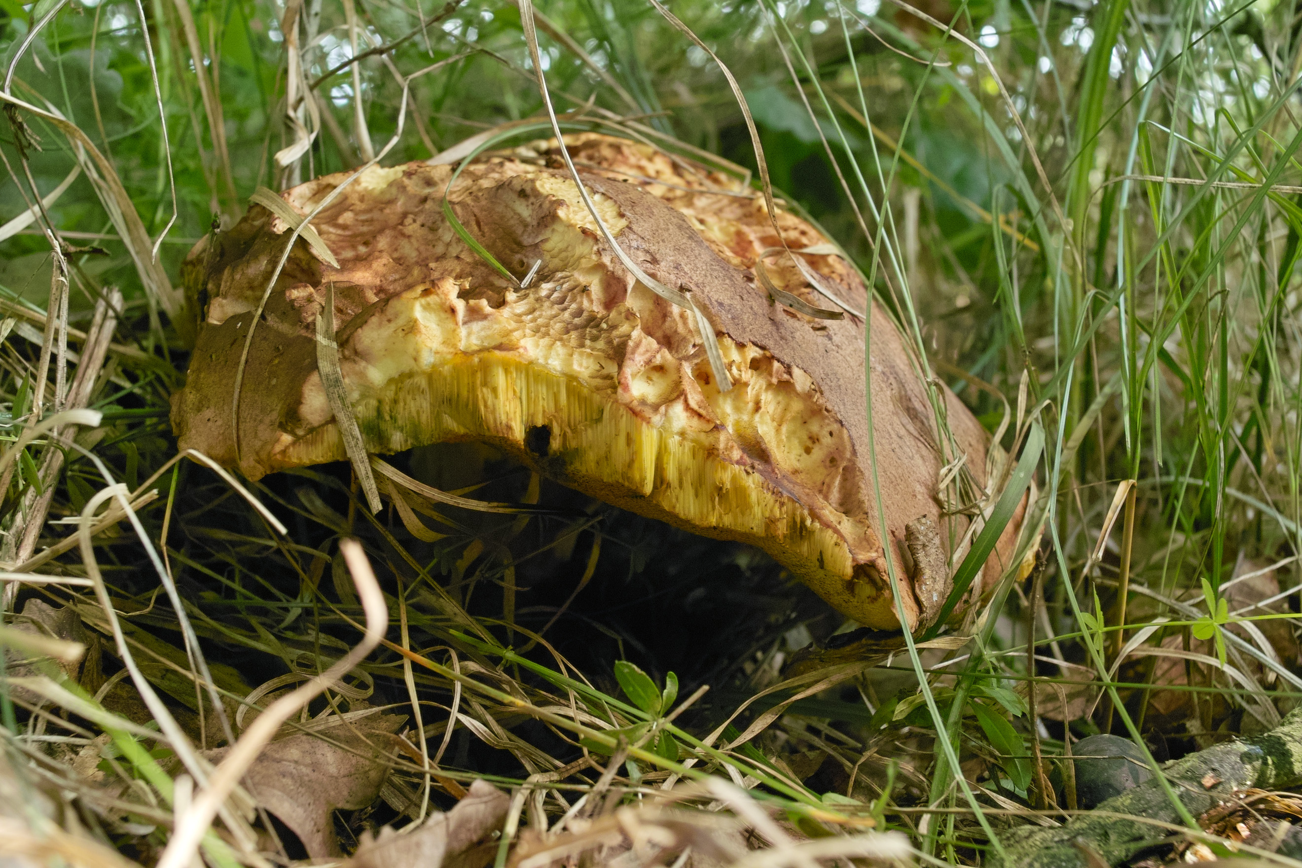 Boletus appendiculatus, Vrbenské rybníky, Czech Republic